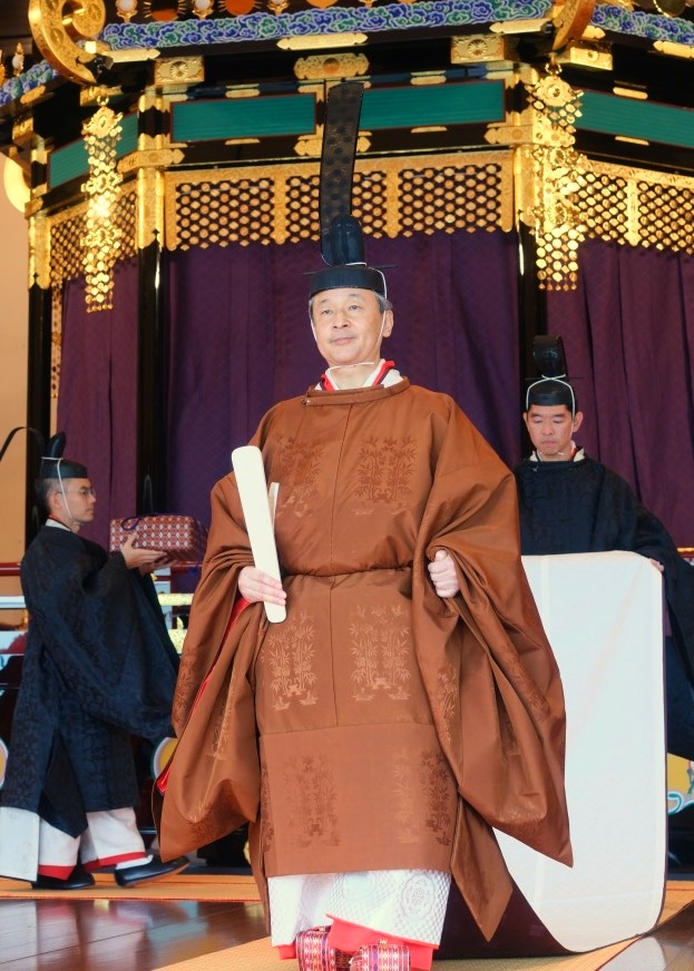 In 2019, the 126th Emperor, Naruhito who wore Korozen no goho at the enthronement ceremony